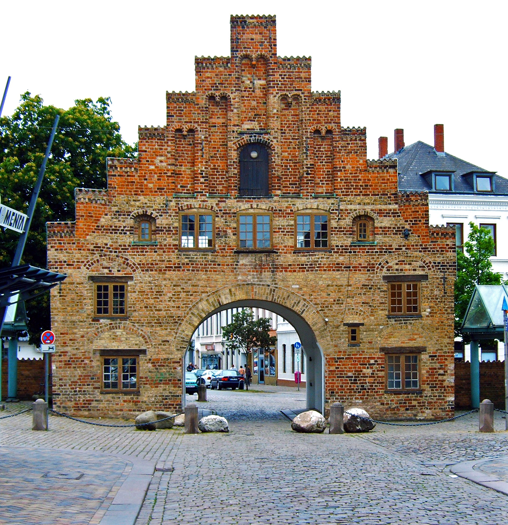 Southern side of Nordertor (Northern gate) in Flensburg